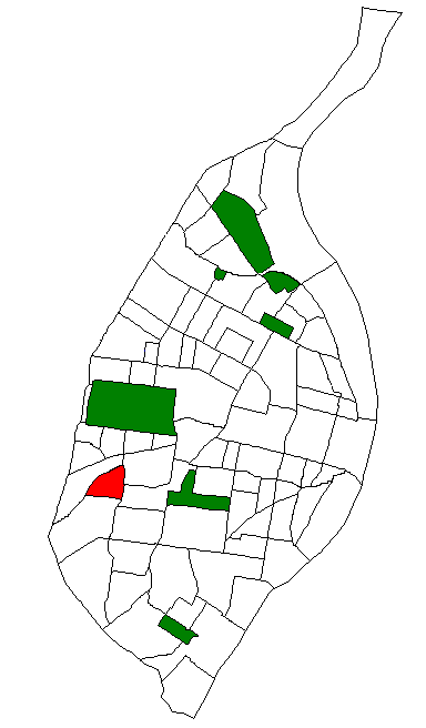 Map of St. Louis Neighborhood #11